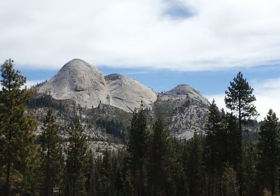 Mount Starr King's profile from the west.